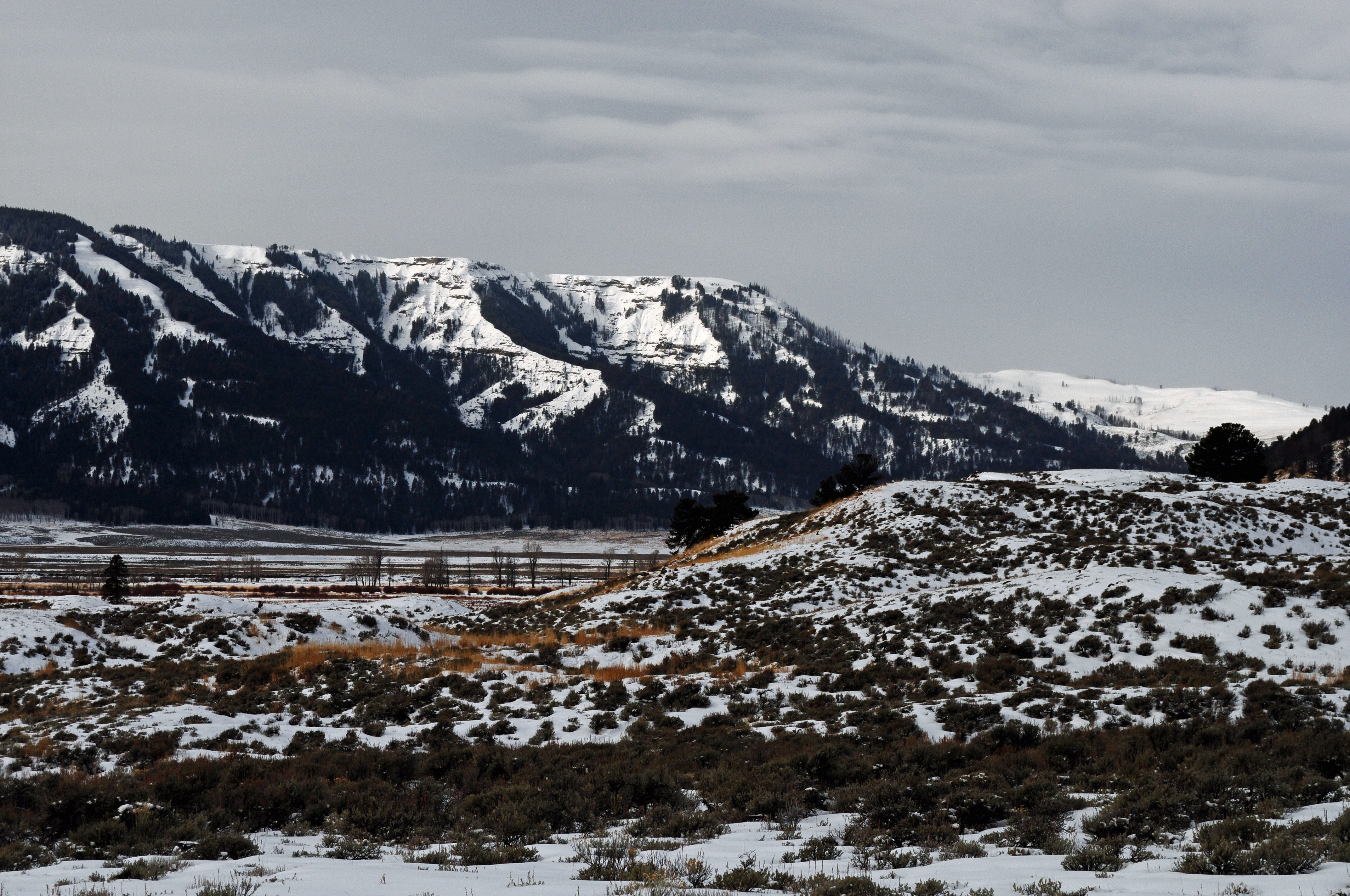 Face of Specimen Ridge from Lamar Valley, Yellowstone National Park, December 2009